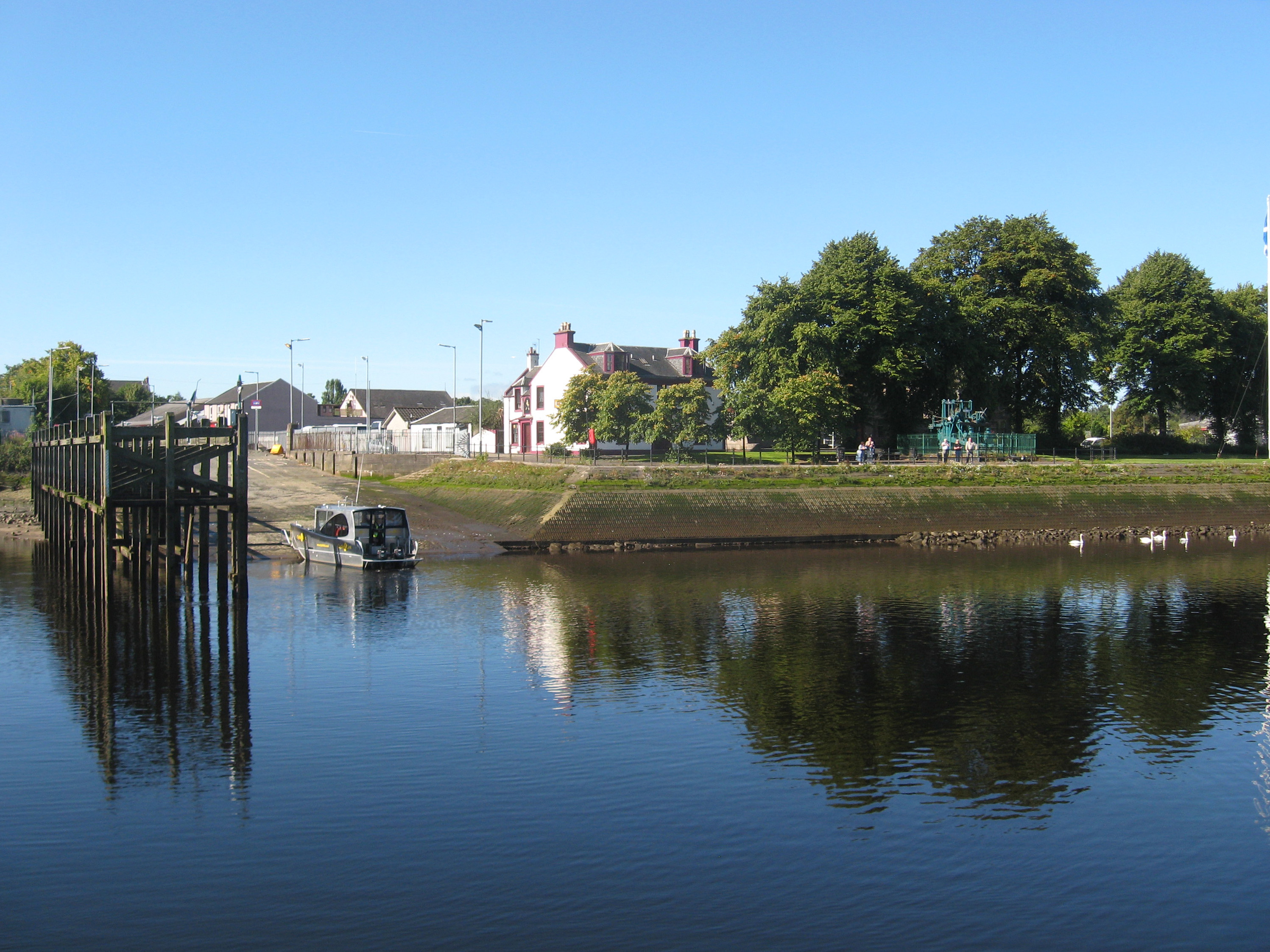 Clydelink Renfrew Ferry seen from PS Waverley, with the Ferry Inn and the marine engines from Paddle Steamer Clyde